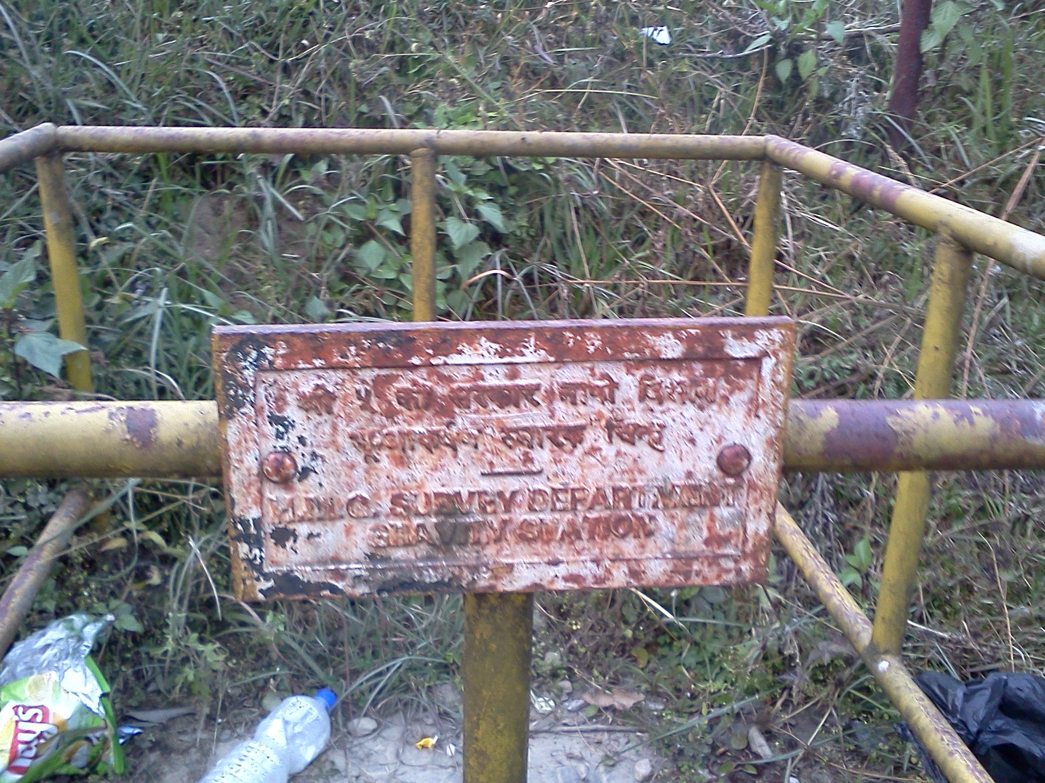 Gravity Station, Geodetic Observatory Nagarkot Nepal